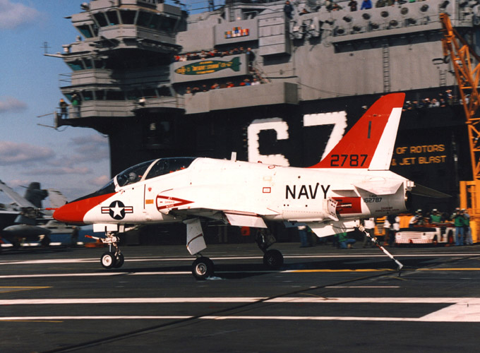 T-45A Goshawk aircraft landing aboad the USS John F. Kennedy (CVA-67).